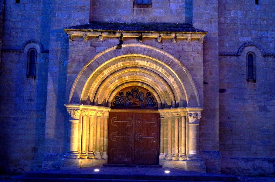 Saint Georges church. Bourbon l'archambault.